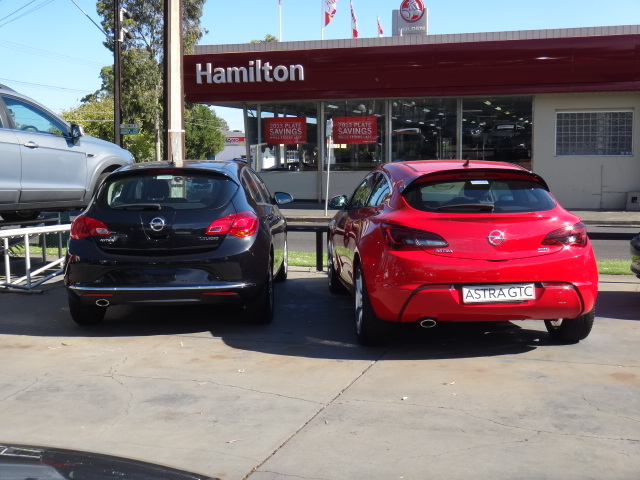 Holden dealerships nation wide are now carrying all the left over stock from Opel, so it's now very common to see Opel's sitting there amongst Holden's. The Astra is by far the most popular of the Opel's and is now odds on to become a permanent member of the Holden family, complete with Holden badging, replacing the Opel badges. In what is fast becoming a circus of comical announcements for GM in Australia, Opel is now favourite in replacing Chevrolet in Holden's line up of vehicles!! So in the very near future, Opel products will start to replace the Chevrolet (GM South Korea - Old GM Daewoo) products that Australian's have been buying for the past 10 years or more and go back to the days when the Corsa (Barina), Astra, Vectra, Zafira, Frontera, Tigra, Calibra and others were sold in Australia with Holden badges. The all new Corsa, Astra and Insignia, along with Mokka, Antara, Meriva and Zafira, will all now come to Australia, but wearing Holden badges, a complete turn around from where they were heading.